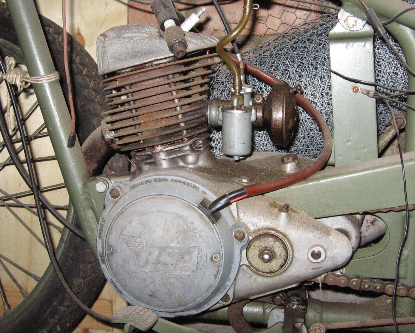 A BSA Bantam D1 (circa 1953 - bike not photo)